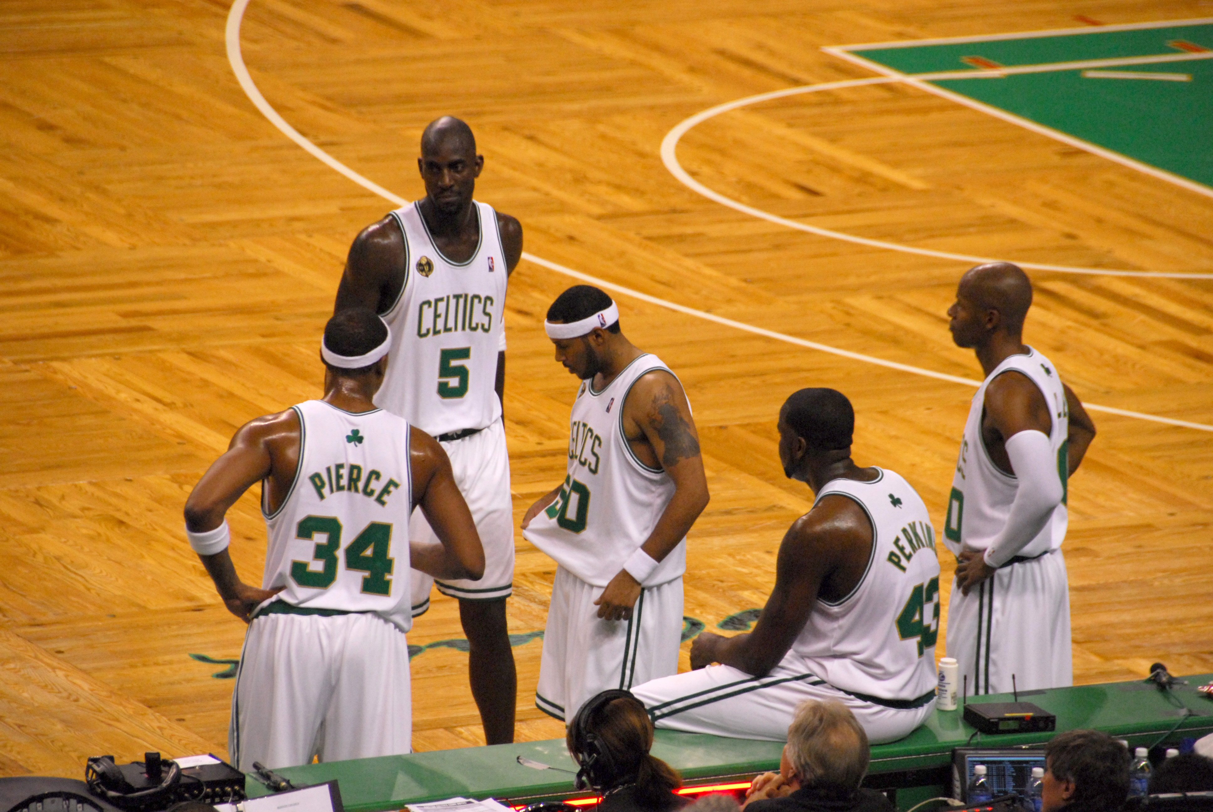 Buddy-Icon von Eric Kilby Cavs @ Celtics 10/28/2008